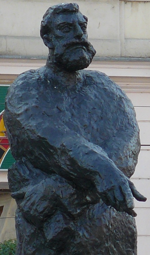 Ante Starcevic Monument in Osijek.